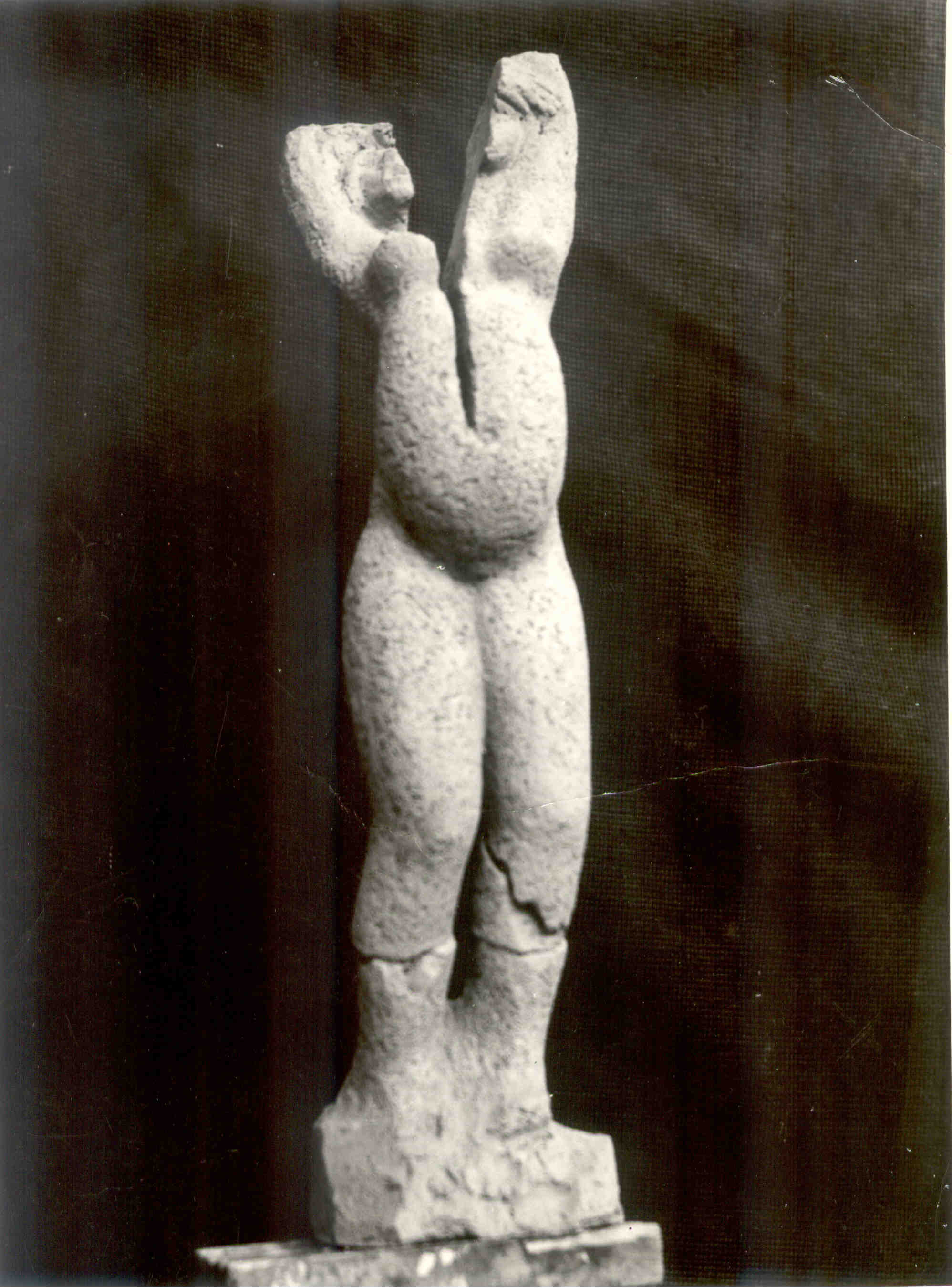 Valentin Galochkin. Project of monument to victims of Babiy Yar ("Violence"). Gуpsum. 1964 Валентин Галочкин. Проект памятника жертвам Бабьего Яра ("Насилие"). Гипс. 1964